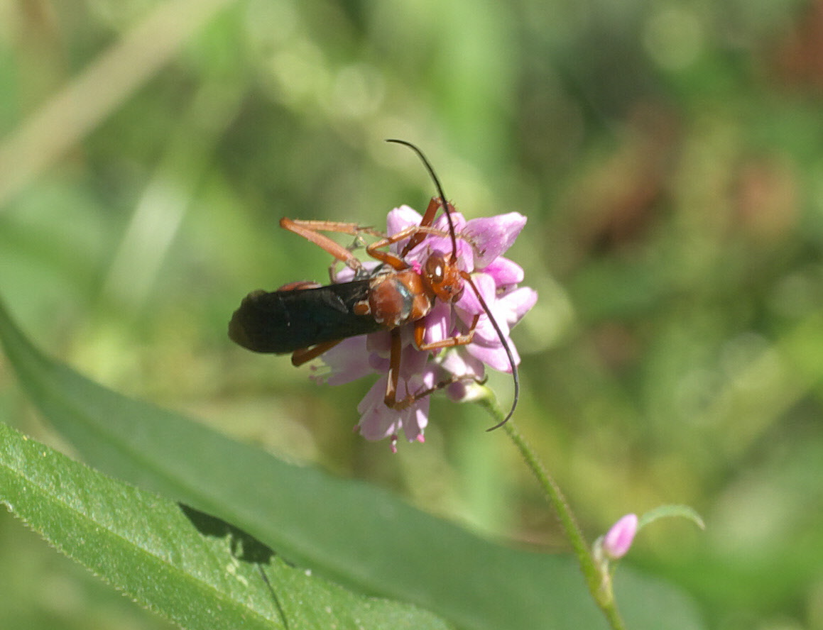 Tachypompilus ferrugineus ferrugineus, Family: Spider Wasps, ID Confidence: 87